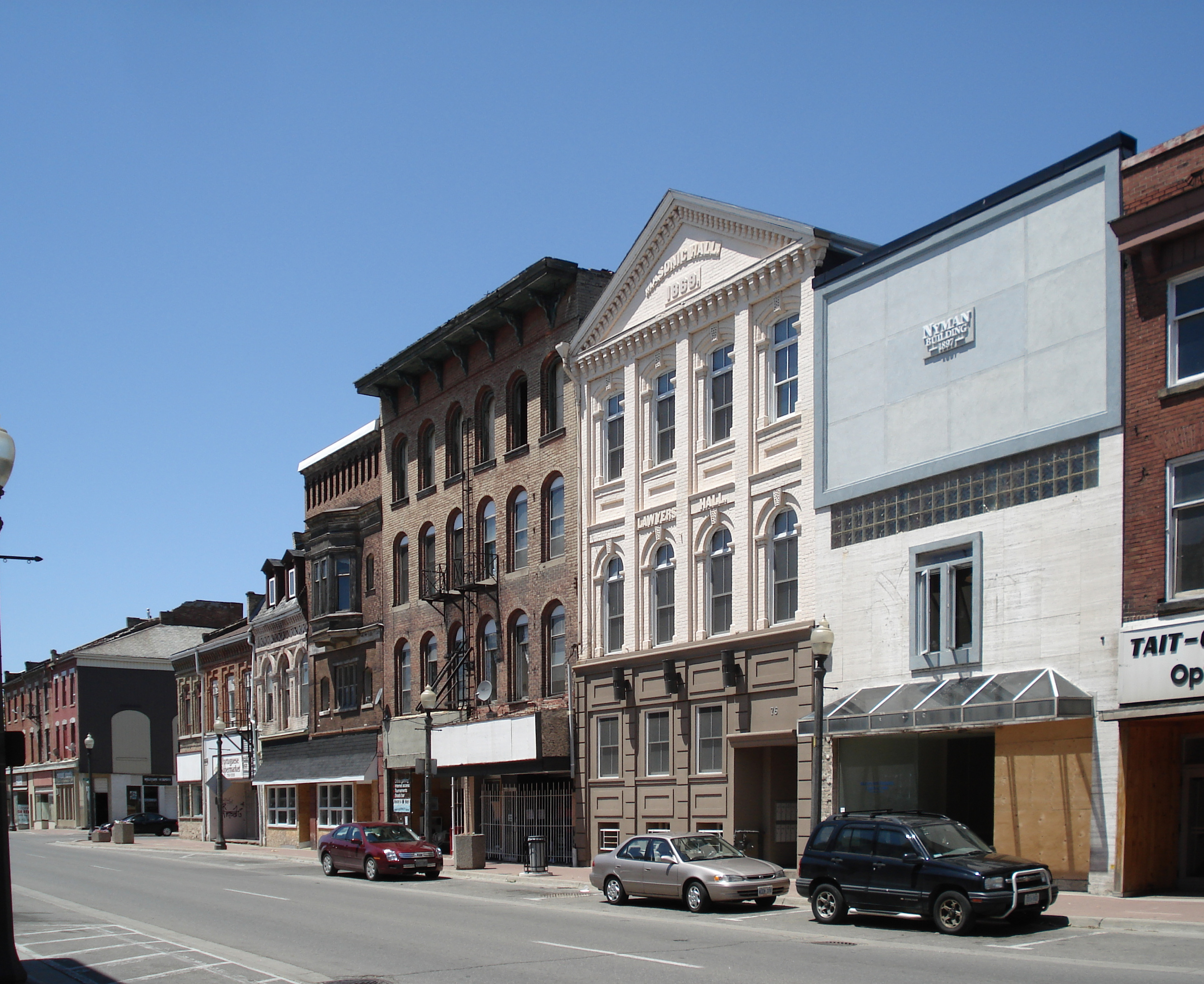 Colborne Street in Brantford, Ontario